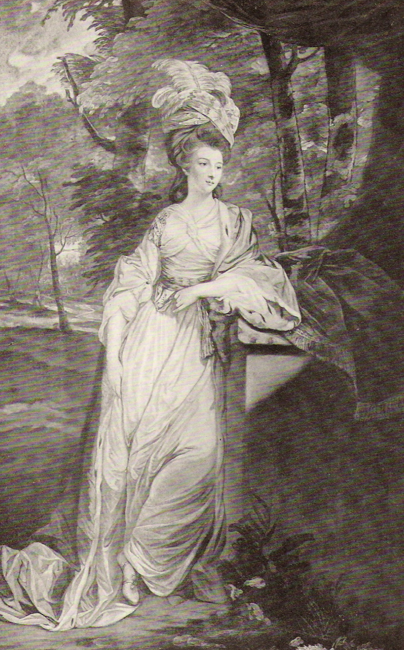 Portrait of Mary Isabella Somerset (1756-1831), Duchess of Rutland